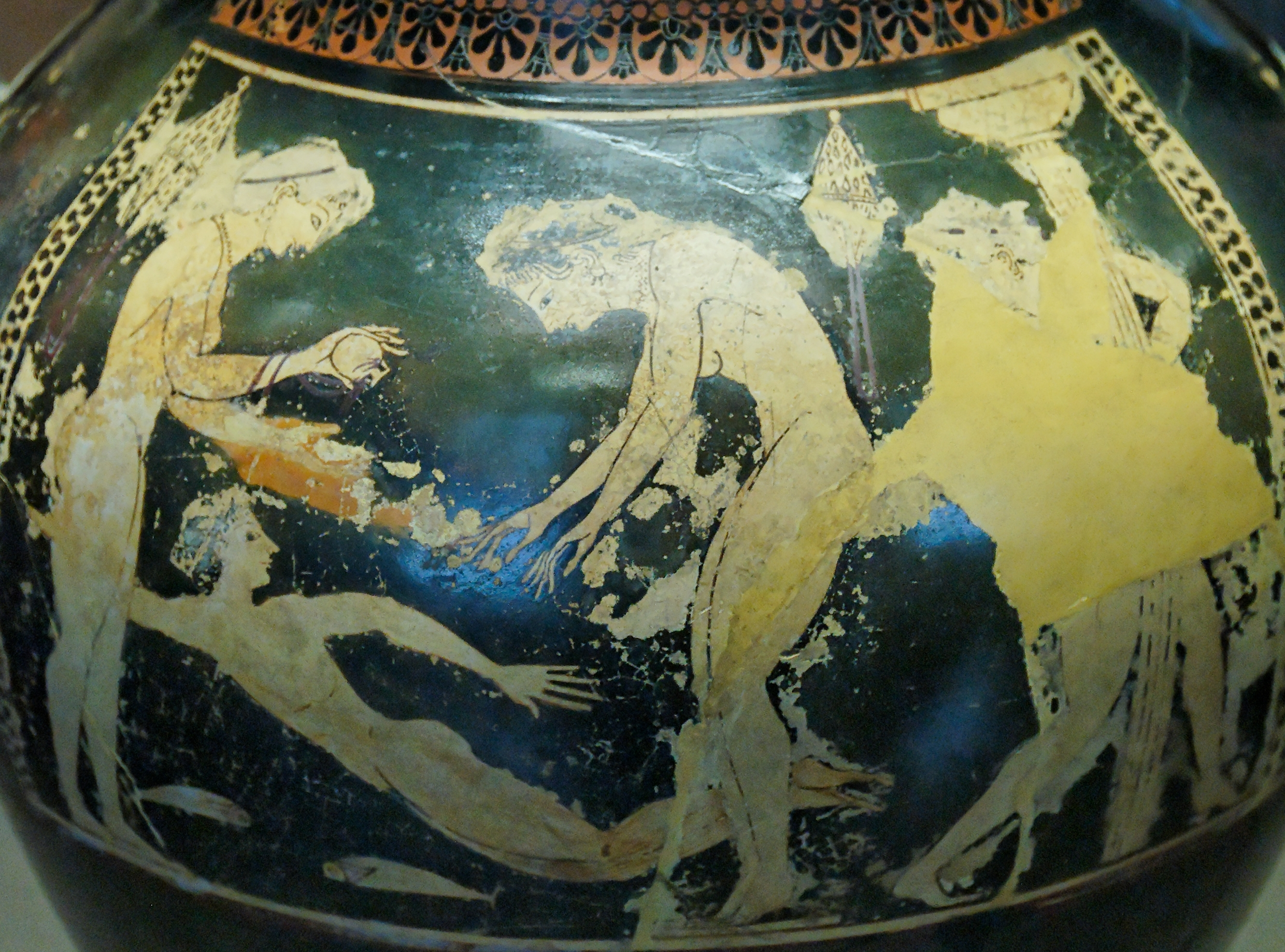 Women bathing. Side B from an Attic white-figure amphora, ca. 525–520 BC.